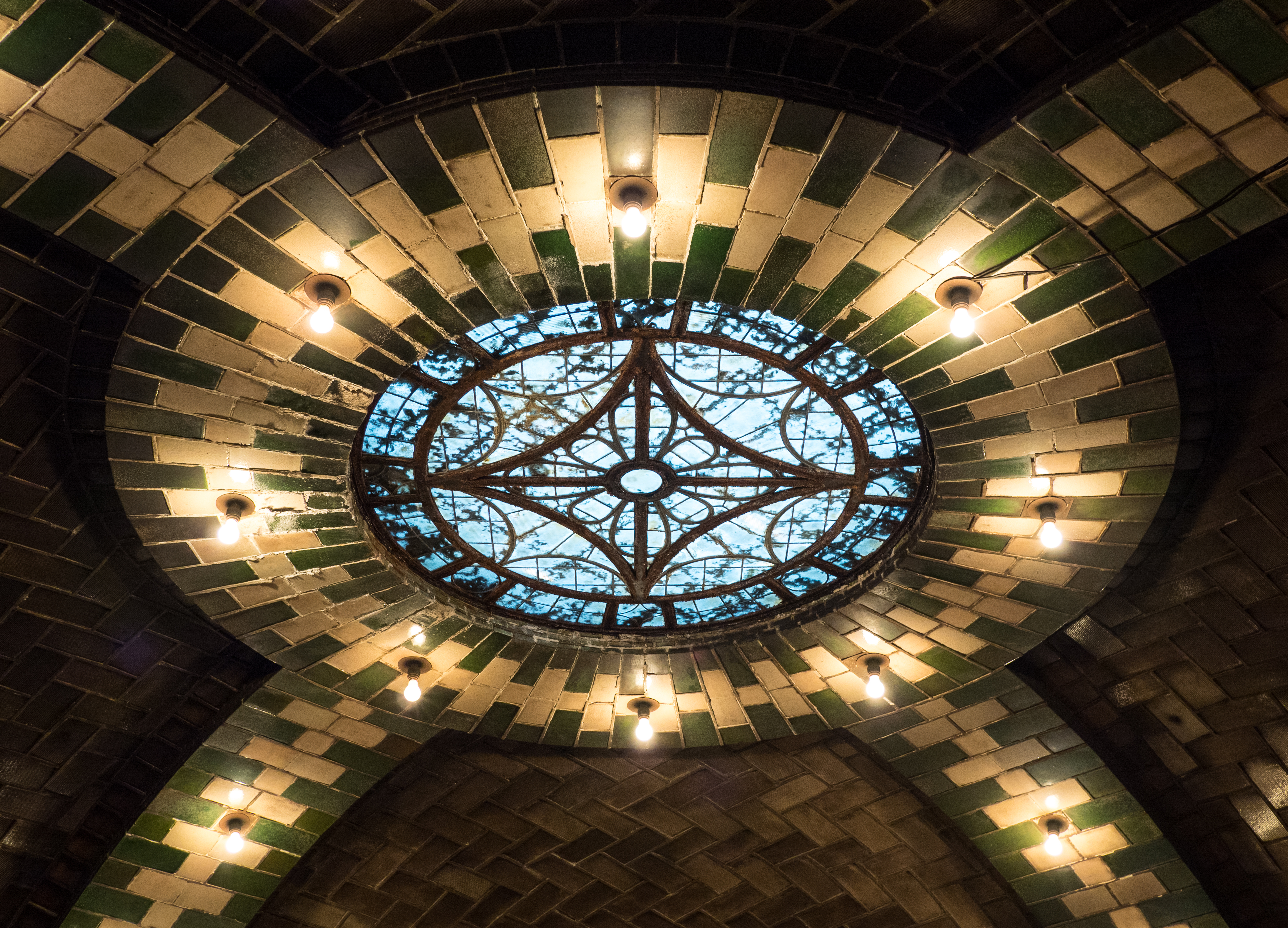 The defunct City Hall subway station in New York City, closed since 1945. The station has several skylights. Most of them are built into the arches above the platform. This is the sole circular skylight above the mezzanine. Visible from above in the middle of the City Hall parking lot.